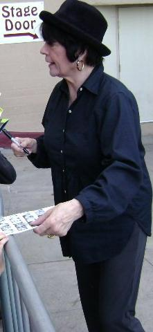 Jo Anne Worley, signing autographs. Cropped from original.